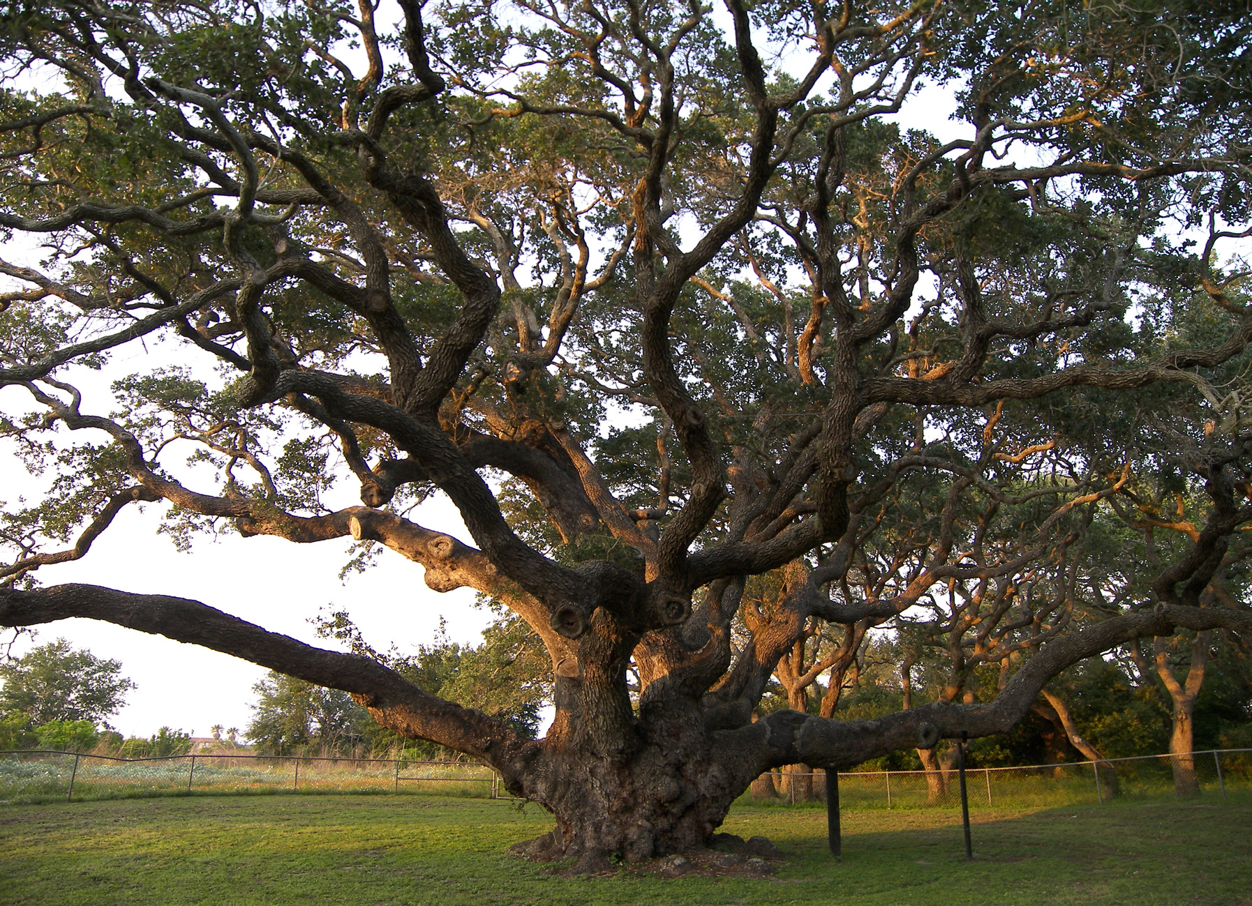 The Big Tree at Goose Island State Park north of Rockport, Texas, United States is estimated to be over 1000 years old and has a trunk circumference over 35 feet. The Big Tree was named the State Champion Coastal Live Oak (Quercus virginiana) in 1969.